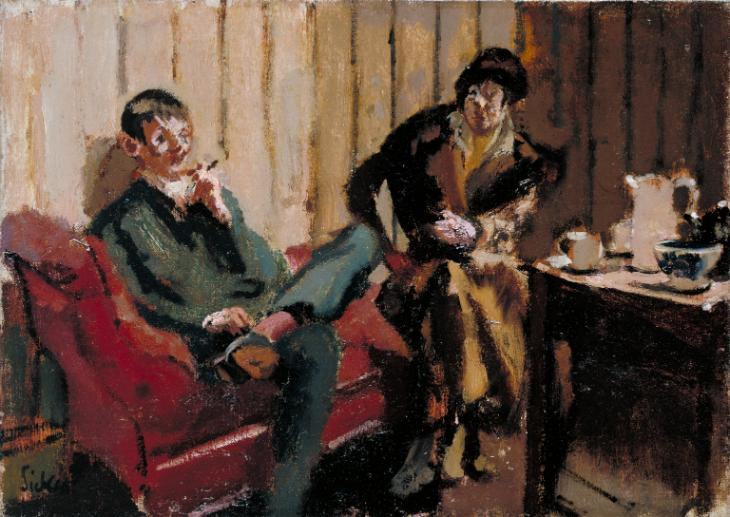 The Little Tea Party: Nina Hamnett and Roald Kristian 1915-6 Walter Richard Sickert 1860-1942 Purchased 1941